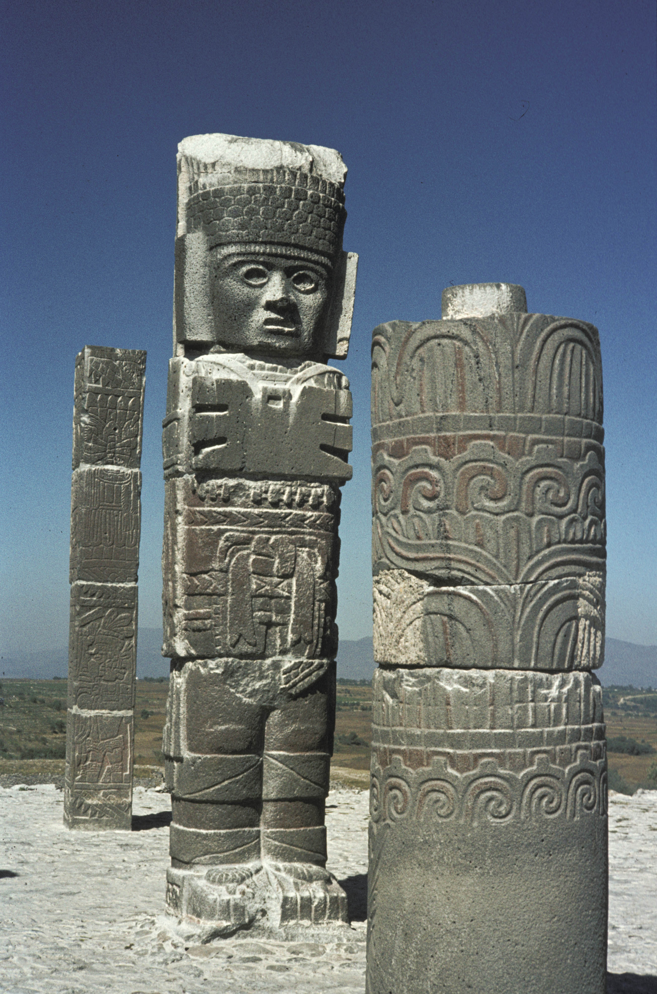 Image from Mexico in 1980; Atlante in Tula